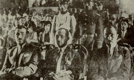 Ziya Hurşit, Gürcü Yusuf, and Laz İsmail at Court of Independence in Izmir, 1926.